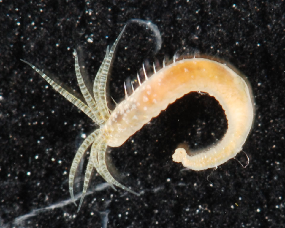 Ampharete americana, 6mm. Upper Muddy Creek, Rhode River, SERC, Edgewater, Anne Arundel County, MD - 08/01/14. Photo by Robert Aguilar, Smithsonian Environmental Research Center. I think this should be named the Sideshow Bob worm.